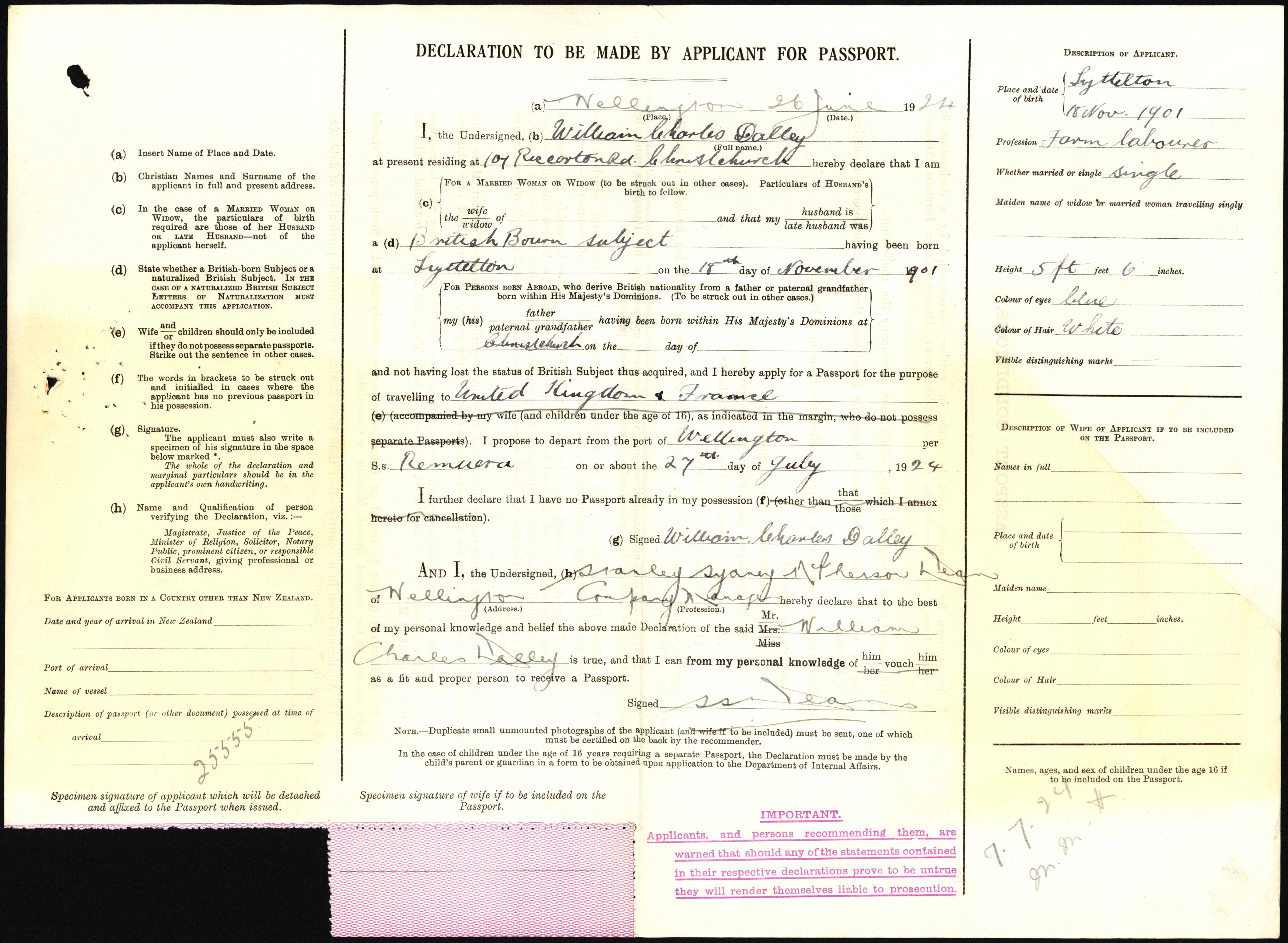 ACGO 8333 IA1 1349 / 15/11/17721 William Dalley passport application (1924)